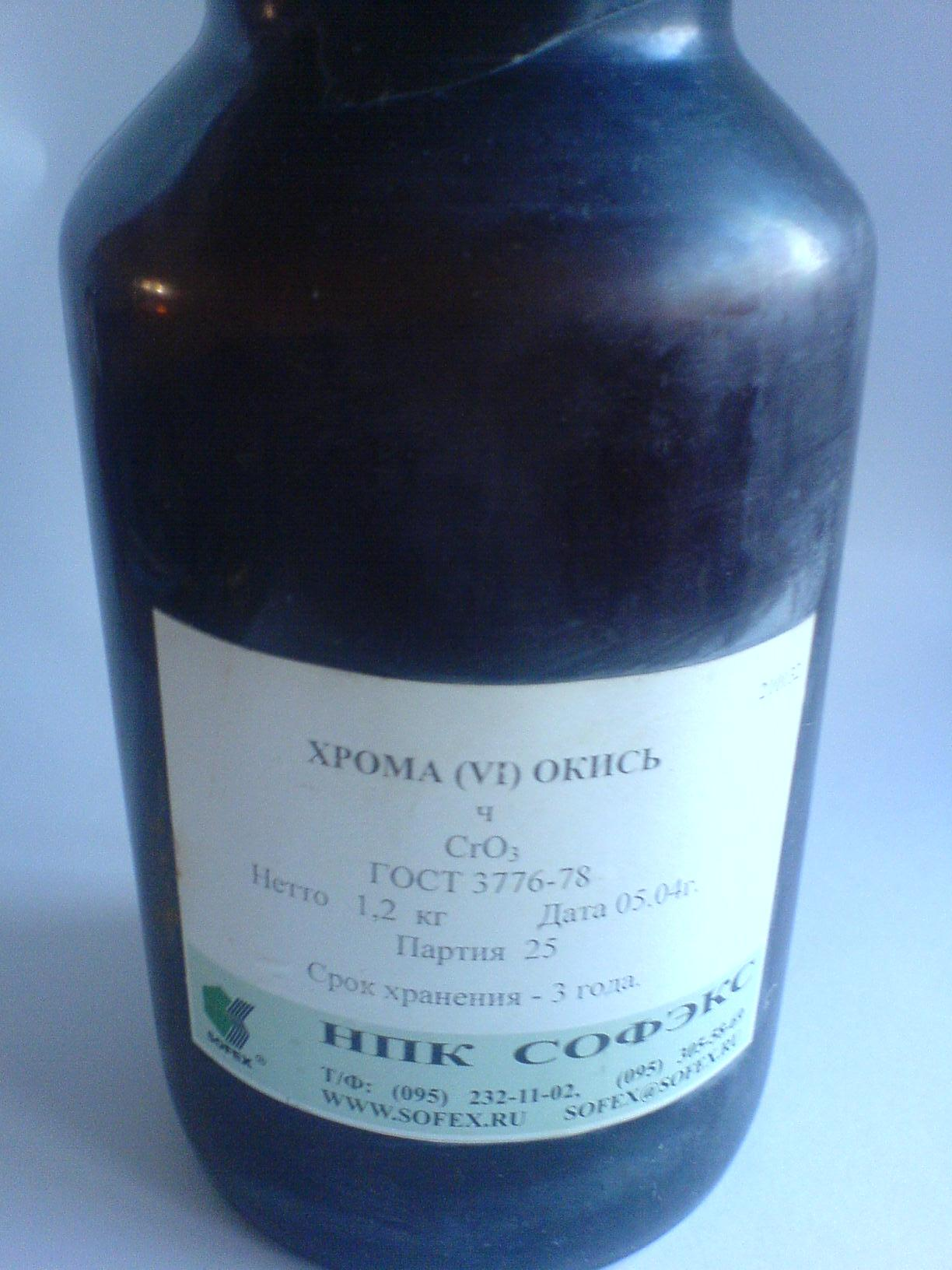 Хромовый ангидрид сохраняемый герметично. Изображение герметичной стеклянной бутыли с хромовым ангидридом российского производства.